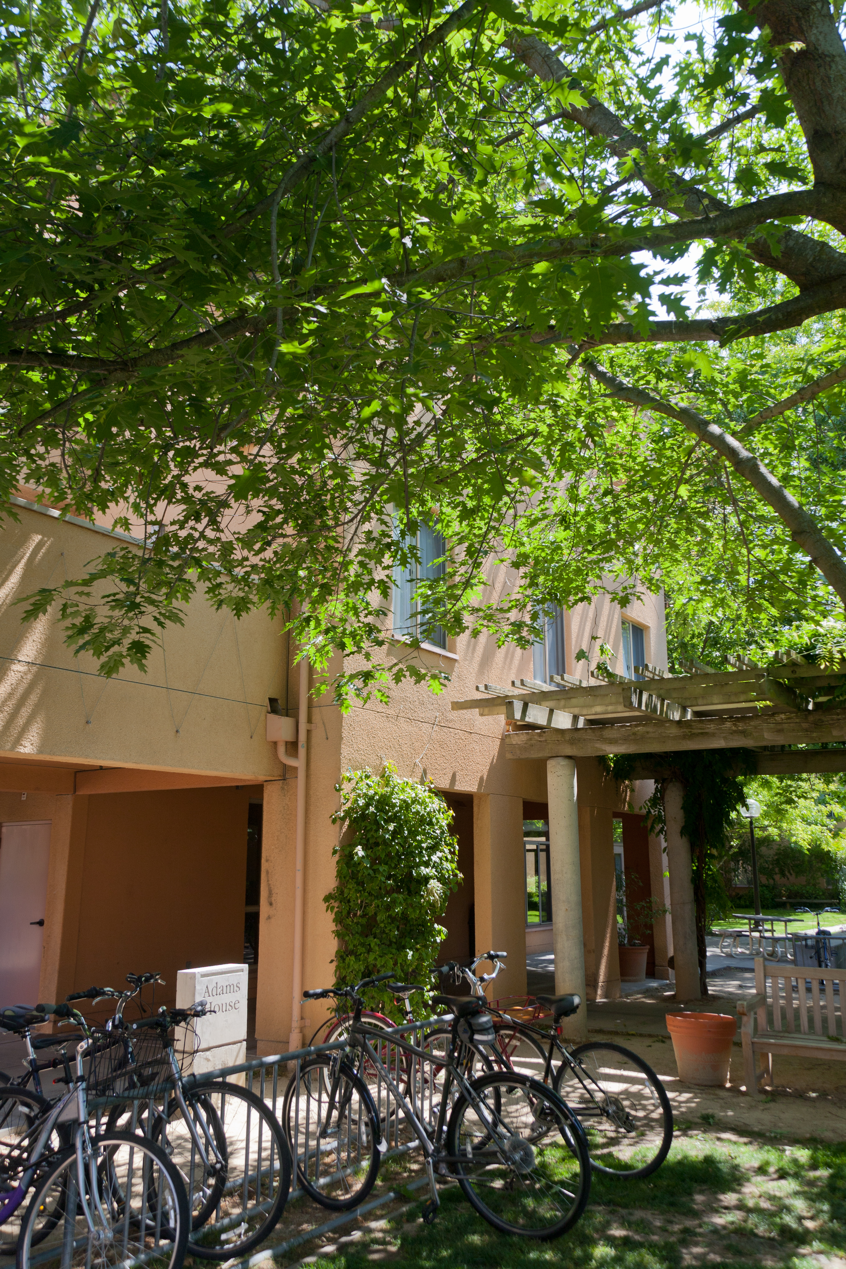 Adams House in Stanford University, Stanford, California.